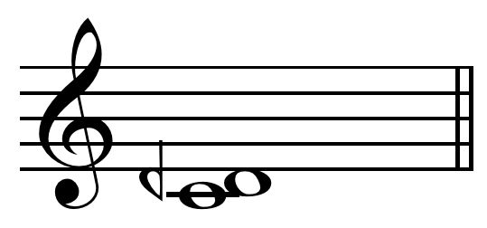 Neutral second/three-quarter tone on C = D. Equal-tempered: 21/8:1 = 150 cents.